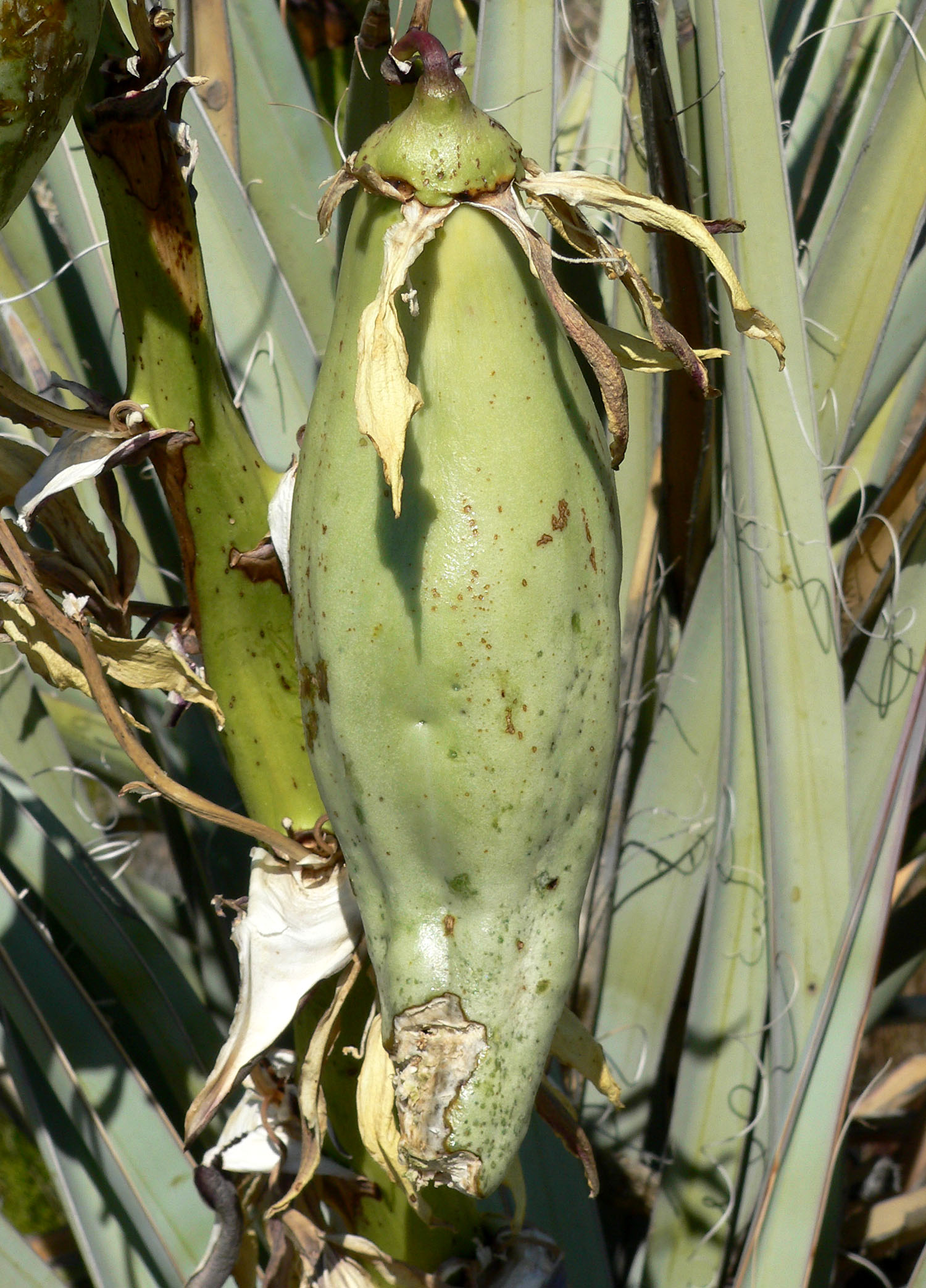 Yucca baccata in Red Rock Canyon, southern Nevada